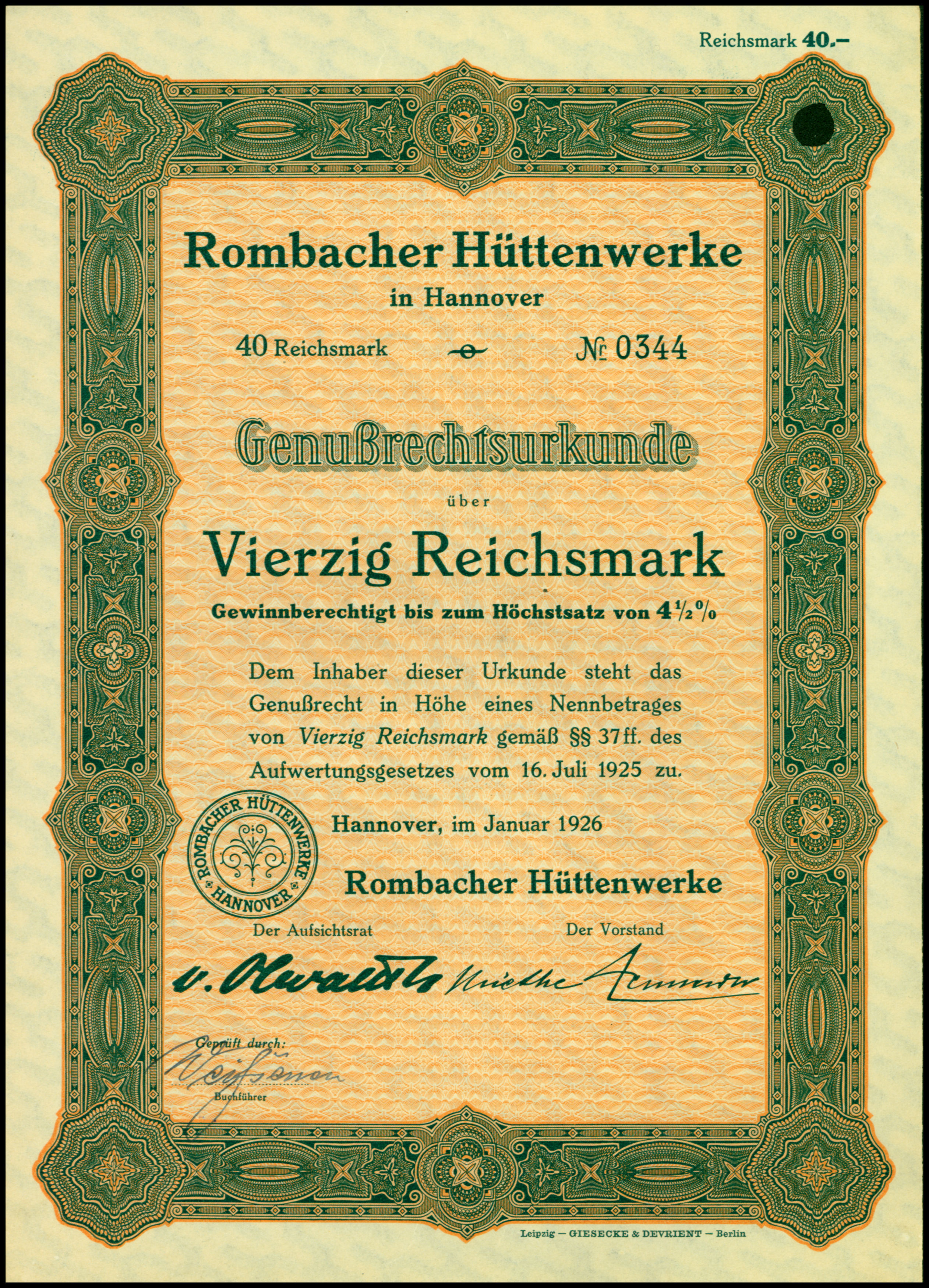 Participation Certificate of the Rombacher Hüttenwerk, issued January 1926